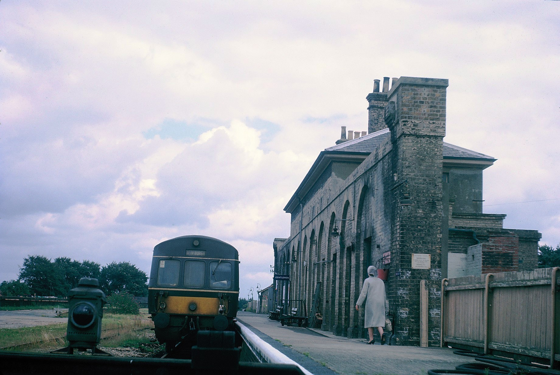 Unidentified train at Aldeburgh railway station.